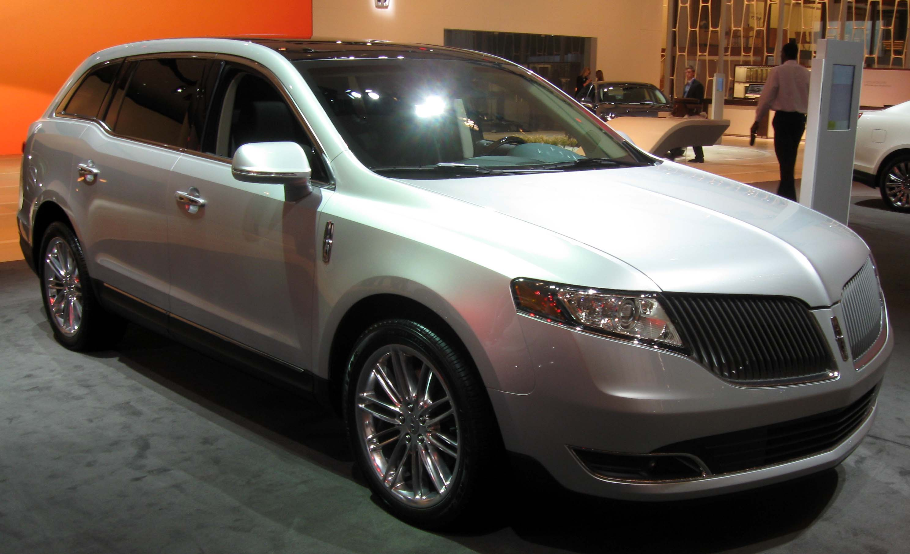 2013 Lincoln MKT photographed at the 2012 New York International Auto Show.